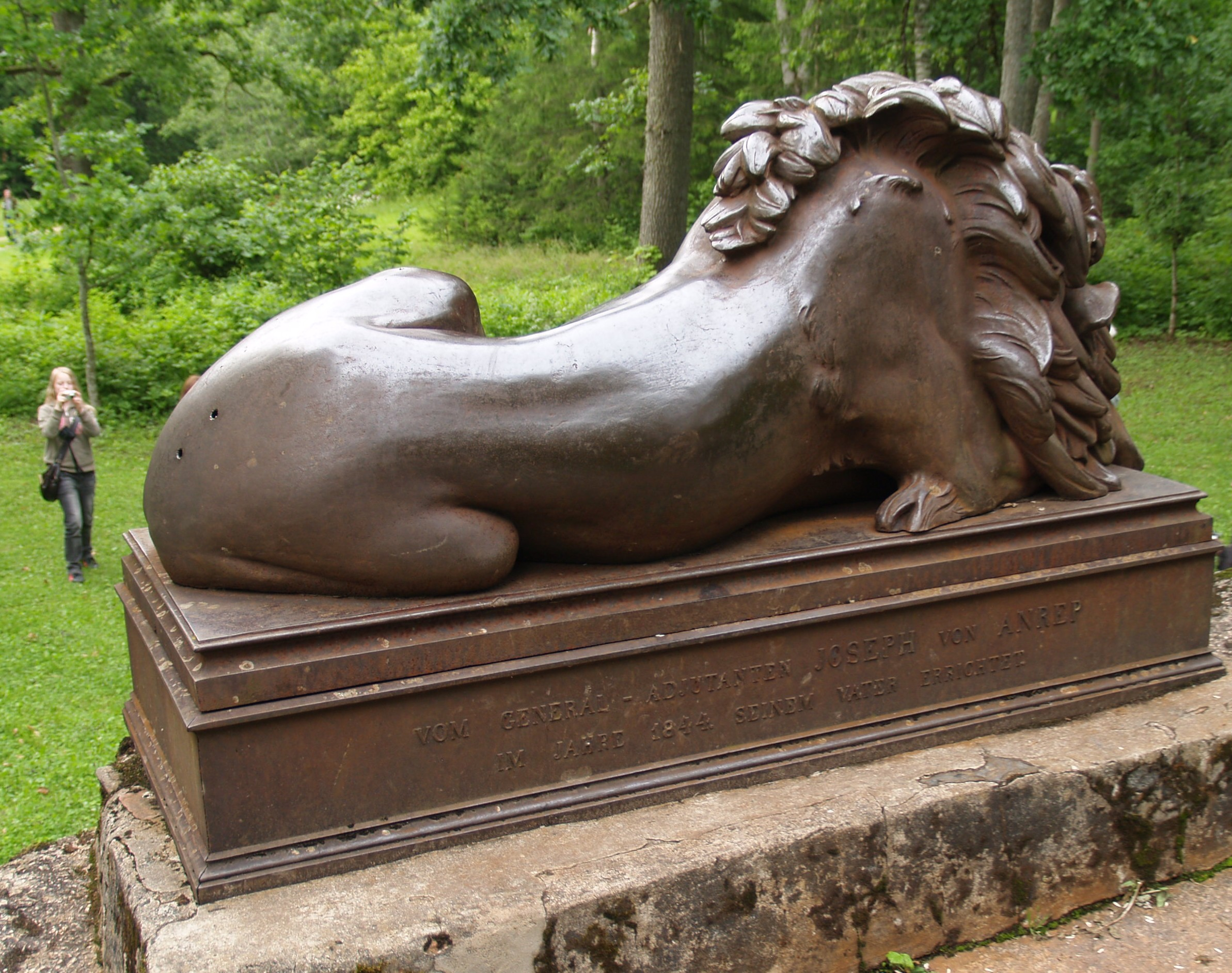 Lion of Anrep. Lion, situated on a boulder, was created by Christian Daniel Rauch. Notice the two bullet holes in the lion.